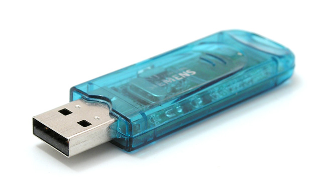 USB flash drive